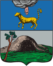 Pechory (Pskov oblast), coat of arms (1781)